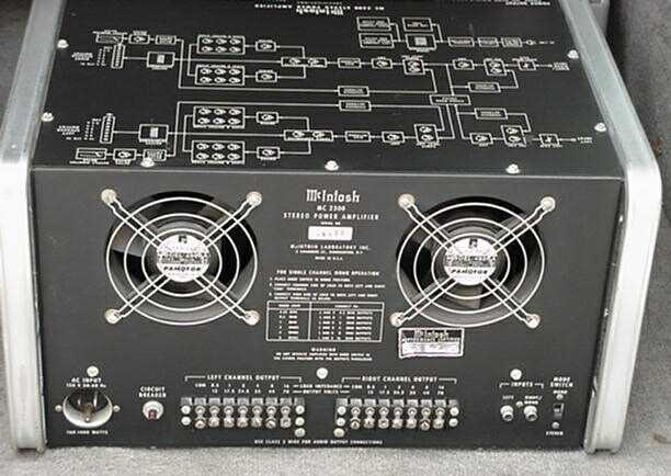 Rear view of McIntosh MC-2300 solid state power amplifier